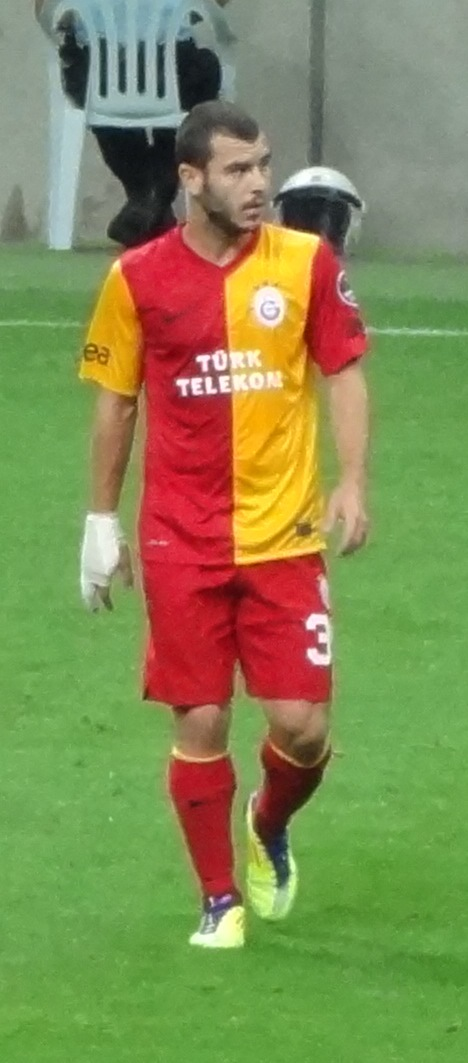 yekta kırtılış 26.09.11